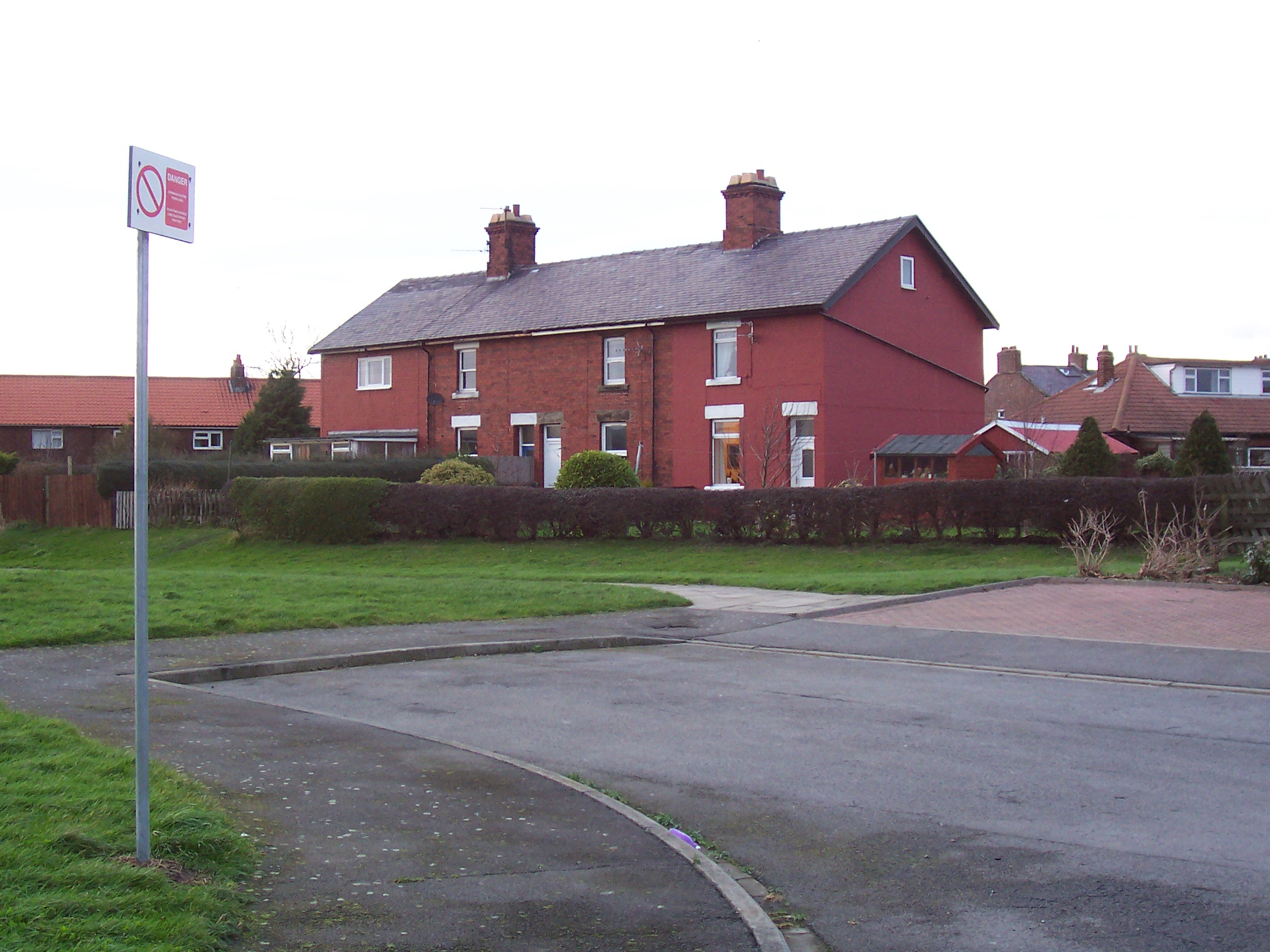 Former railway cottages at the site of Hinderwell railway station.